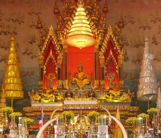 Pha Sai. Nong Khai,Thailand This image (or all images in this category/page) is very small, unfixably too light/dark, or may not adequately illustrate the subject of the picture. If a higher-quality image is available please consider replacing this one; otherwise, a replacement under a free license should be found or provided. Please see Category:Image cleanup templates for templates used to mark images that only need a clean-up. For more help, see Commons:Media for cleanup#Low quality pictures.